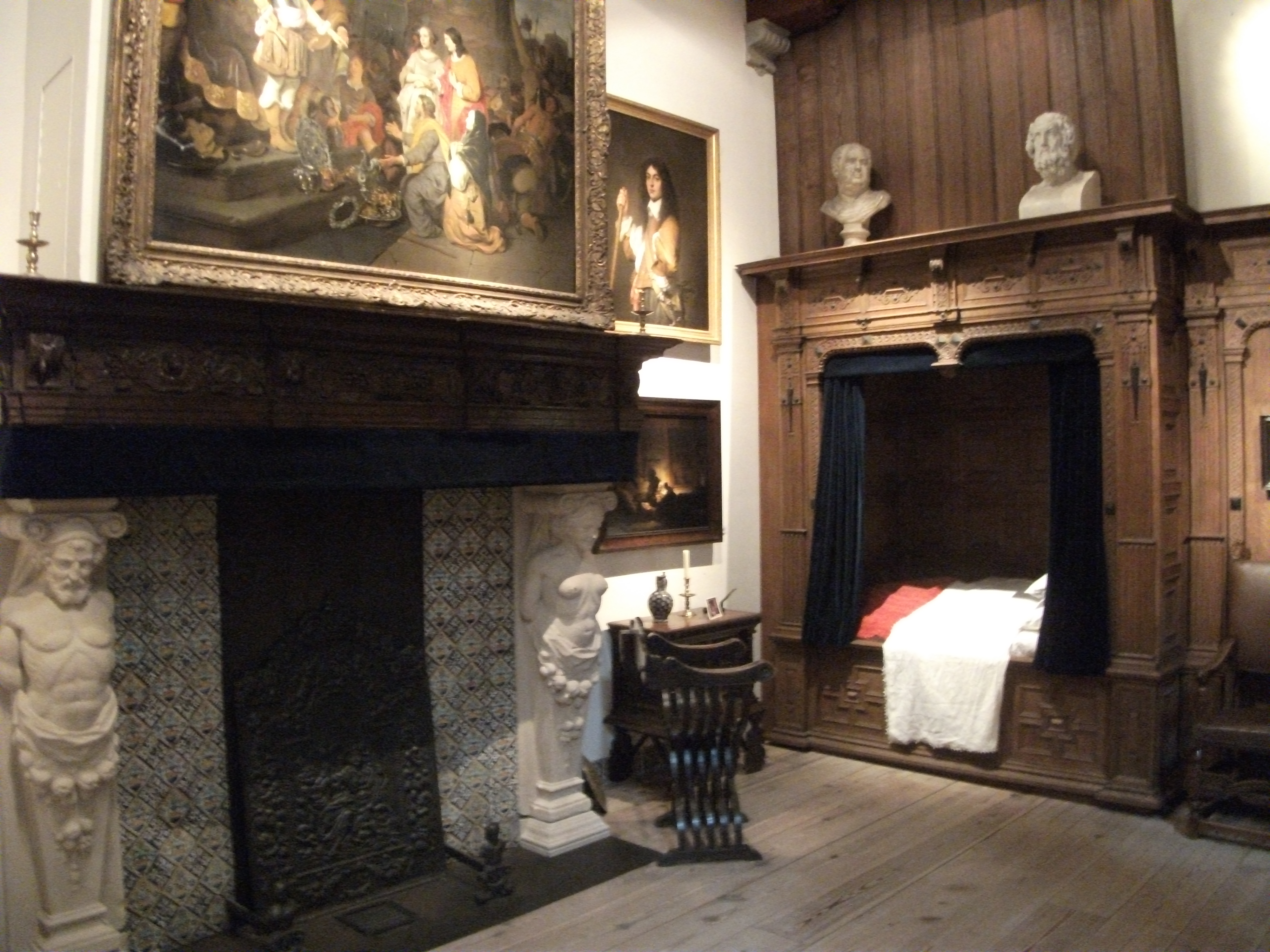 Rembrandt House Museum, view of showroom & Rembrandt's bed